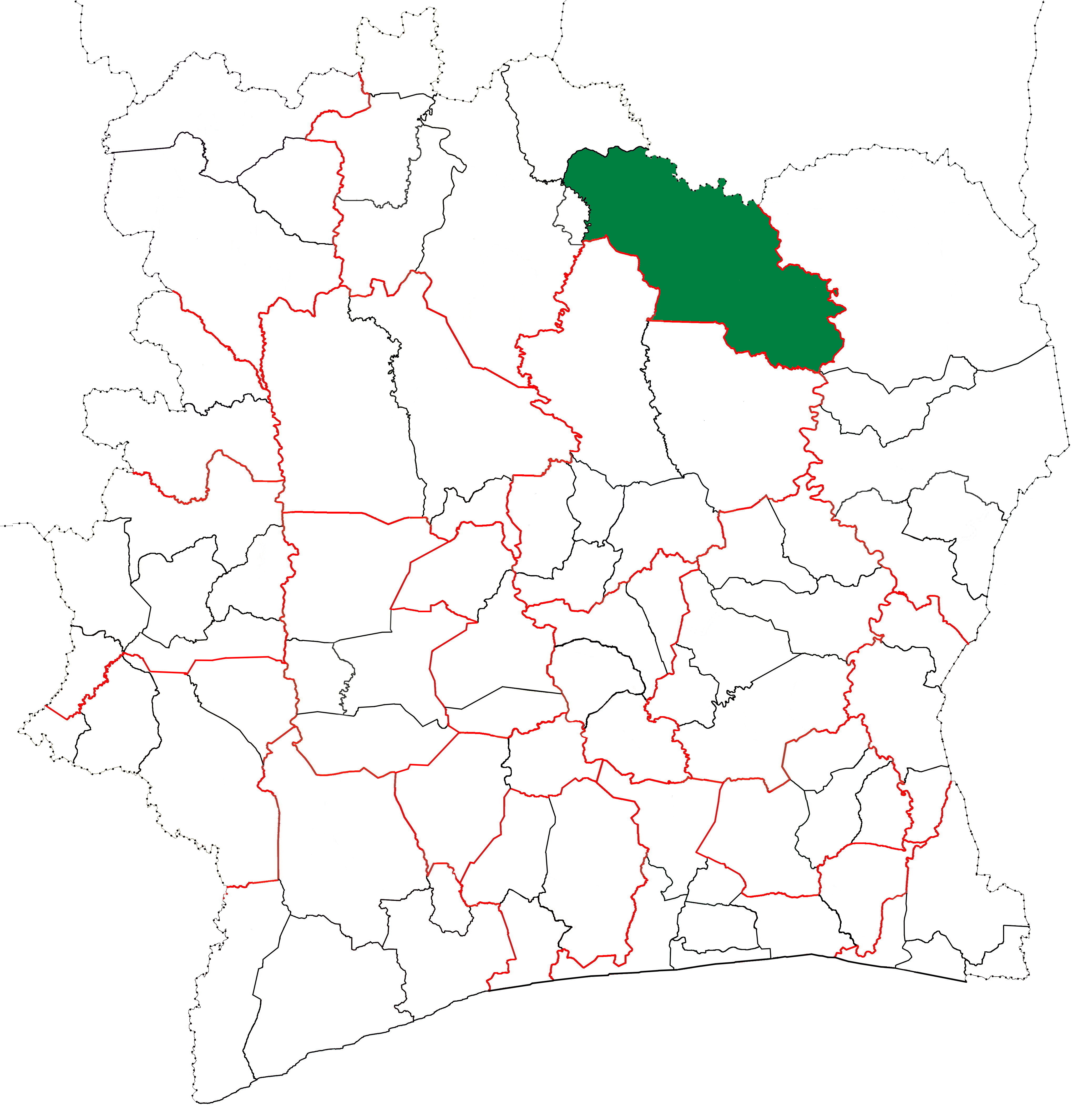 Locator map for Ferkessédougou Department in Côte d'Ivoire in 2008. Ferkessédougou Department kept these boundaries until 2012, but other subdivision boundaries began to change in 2009.